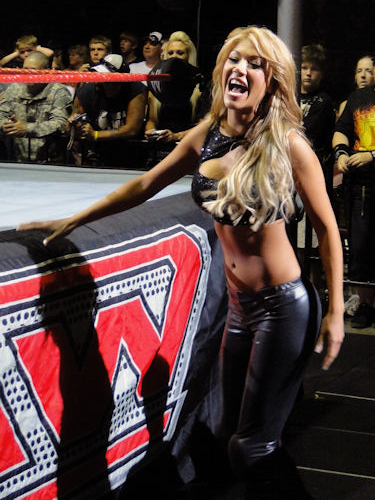 Professional wrestler Rosa Mendes (real name Milena Roucka) at a WWE Raw show in Peoria, Illinois, on August 5, 2009.